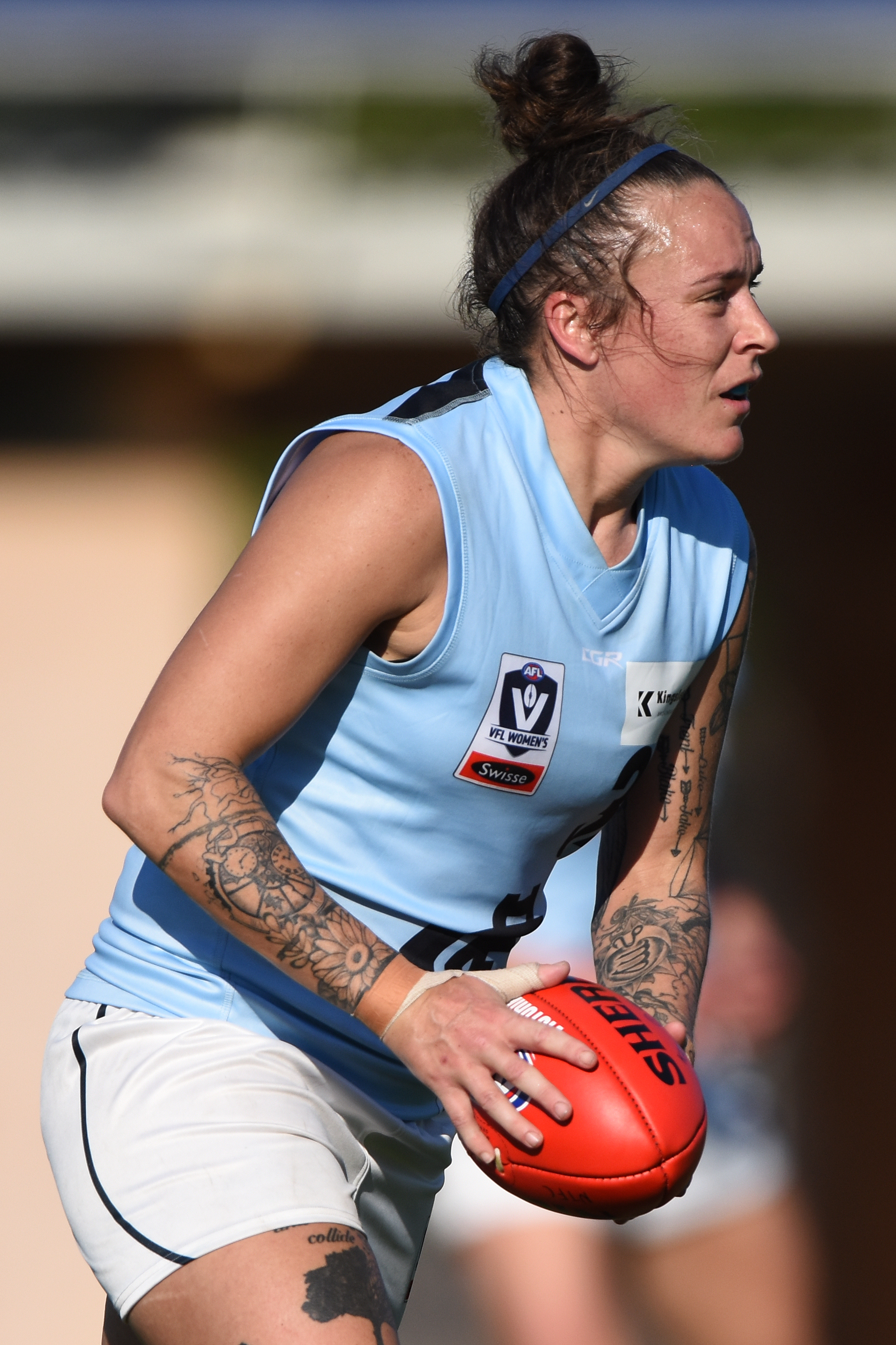 Mia-Rae Clifford of Carlton during the 2019 VFLW round 9 match between NT Thunder and Carlton at TIO Stadium on Saturday, 6 July 2019 in Darwin, Northern Territory.